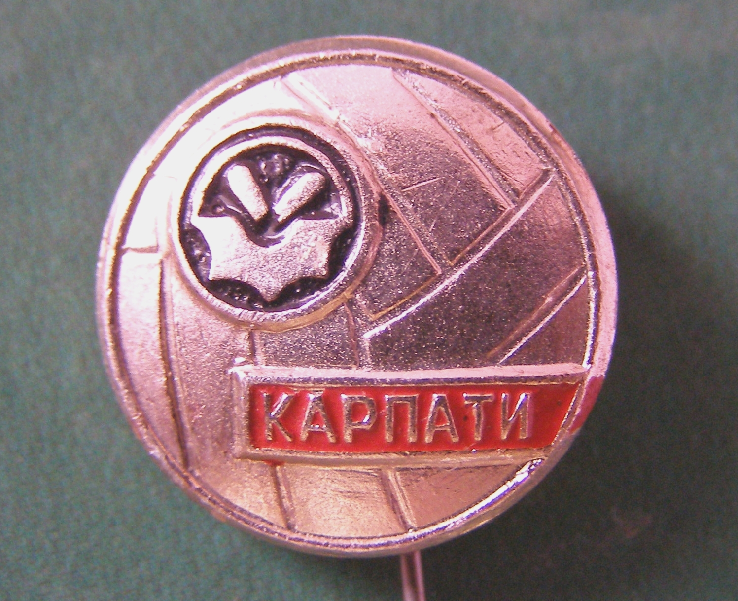 Karpaty Lviv badge of Soviet period